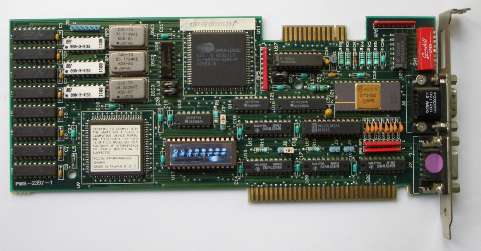 Sampo Mira VGA video card Chipset: Cirrus Logic Video RAM: 256kB Year: 1987 Seems to support a few modes beyond VGA, like 720×540 or even 800×600. Has an additional 9-pin outlet.